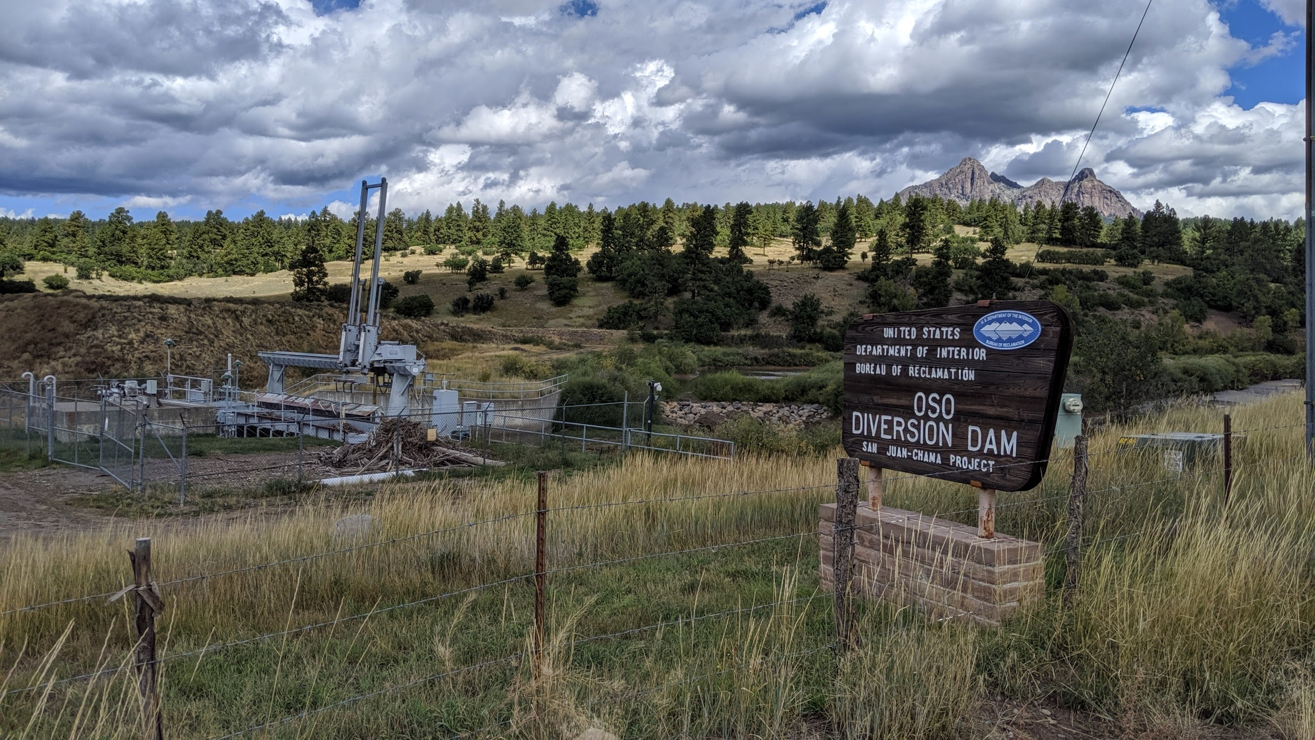 The Oso Diversion Dam on the Navajo River in Colorado, part of the San Juan–Chama Project, showing the sign by the US Department of the Interior, Bureau of Reclamation